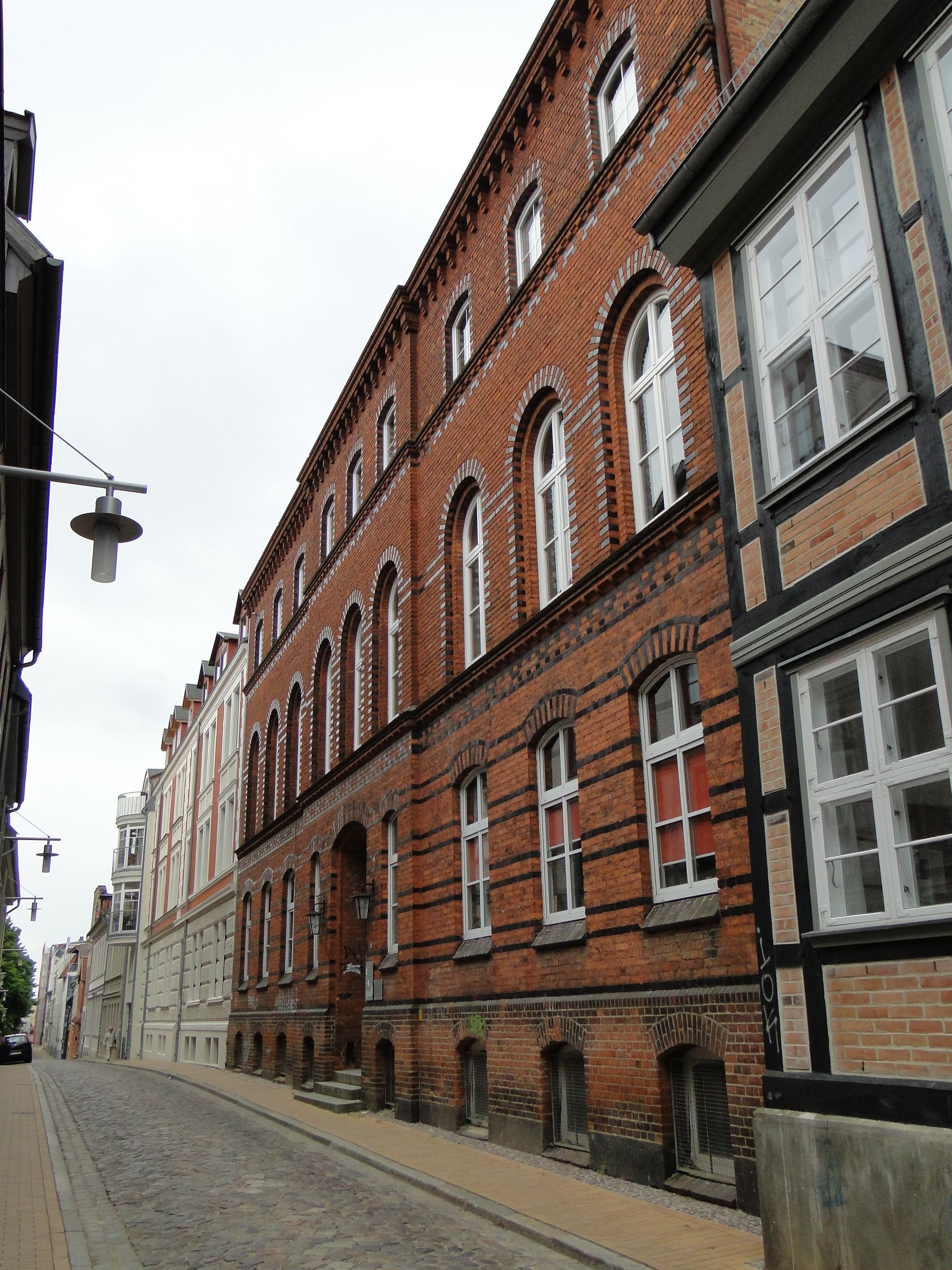 Cultural heritage monument in Schwerin, Mecklenburg-Vorpommern, Germany